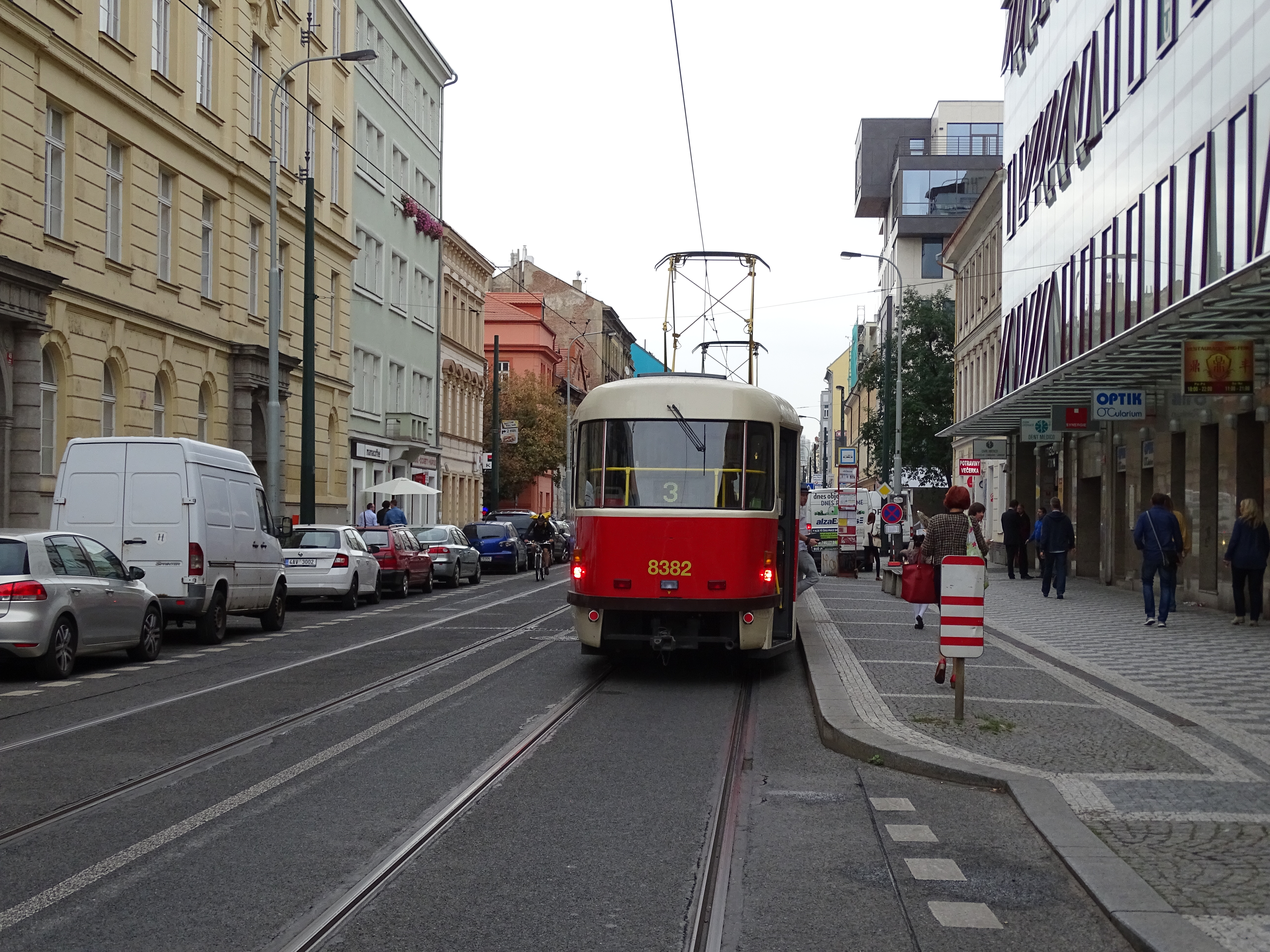 Prague-Karlín, Czech Republic. Sokolovská 366/84, tram stop Křižíkova.